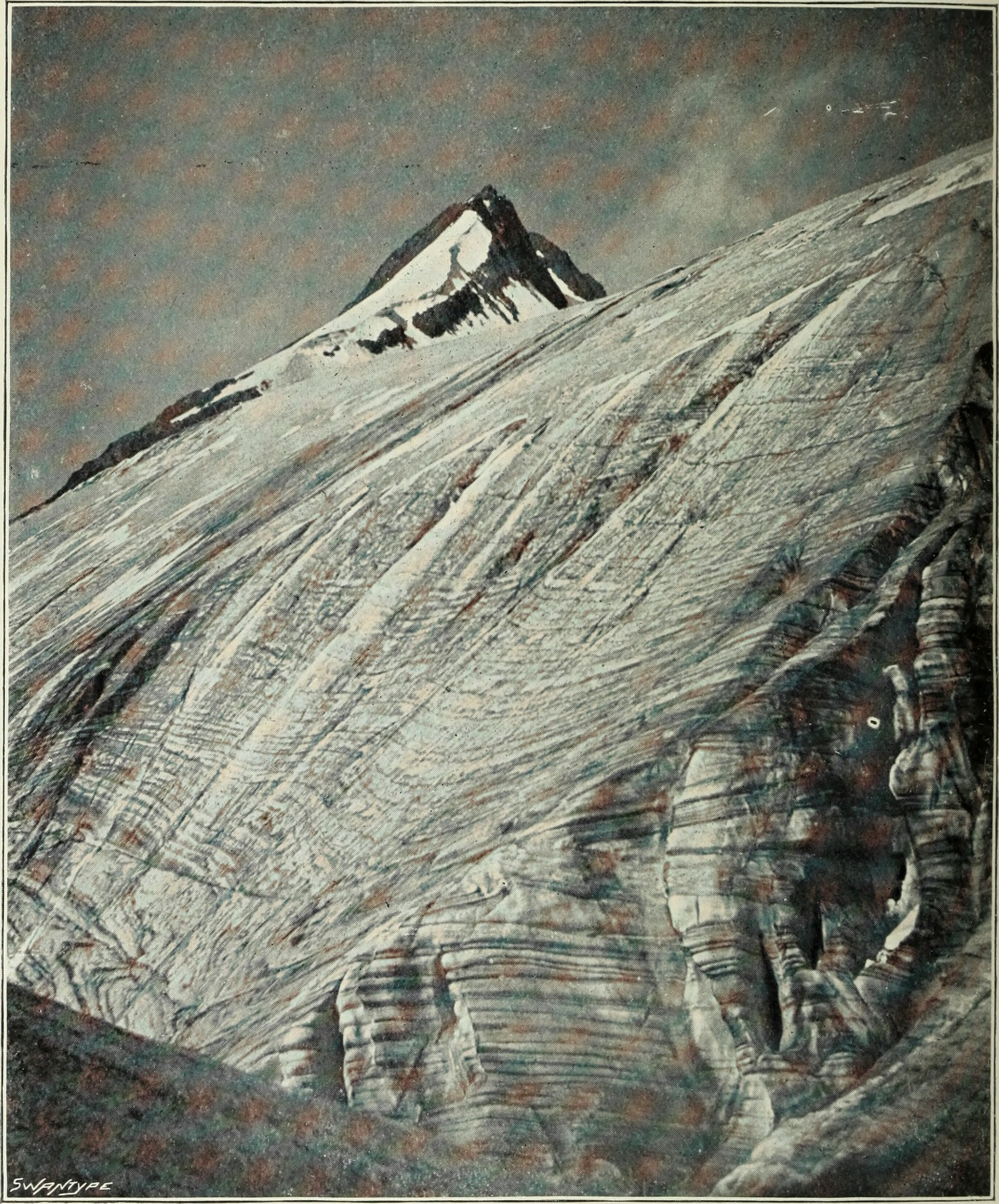 Beyond the Pir Panjal; life among the mountains and valleys of Kashmir, page 195